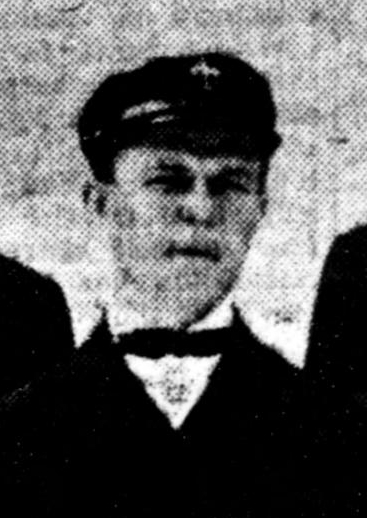 Chief Machinist's Mate Karl Westa, United States Navy, after being presented with the Medal of Honor at the White House.